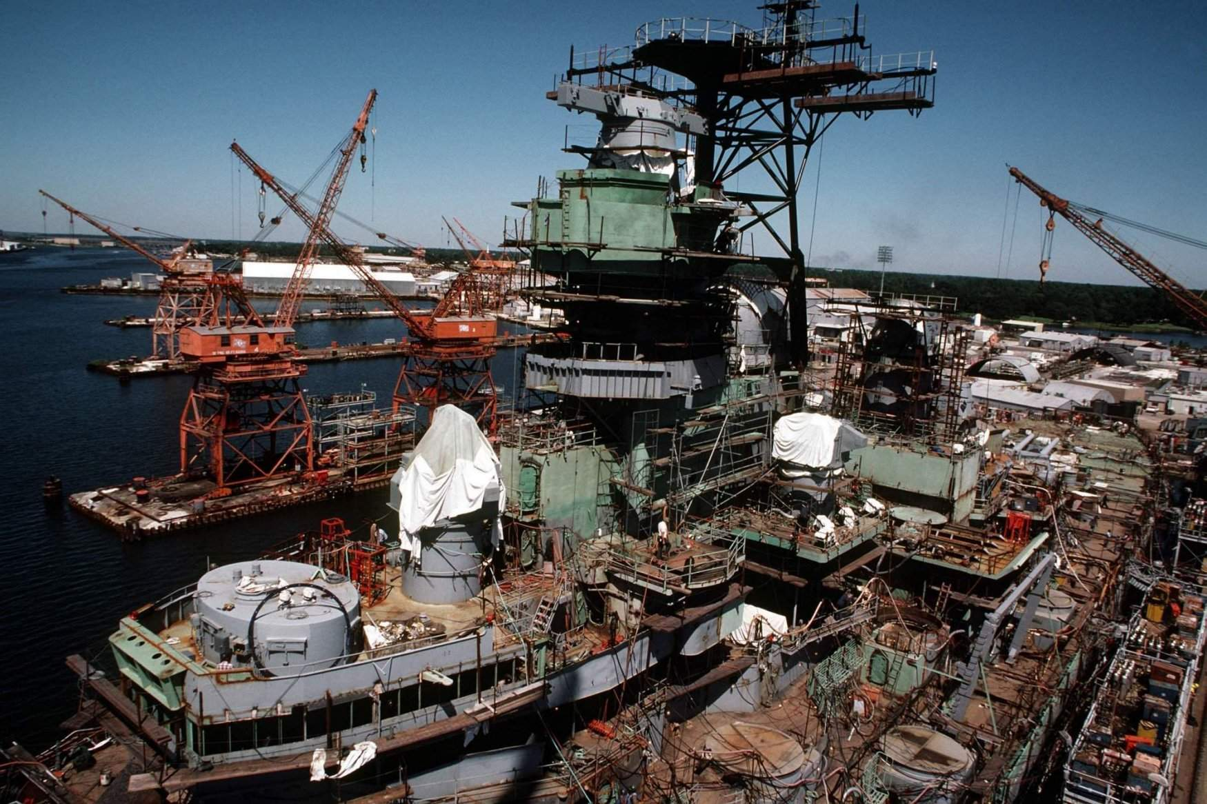 A port amidships view of the superstructure on the Iowa (BB-61) during reactivation at Ingalls Shipbuilding Corp. From the left, in green paint, is the mounting structure for whip antennas, the armored conning tower known as Spot 3, and covered with a tarp is SKY-1, the forward 5-inch gun director. Taken at Pascagoula, Mississippi.